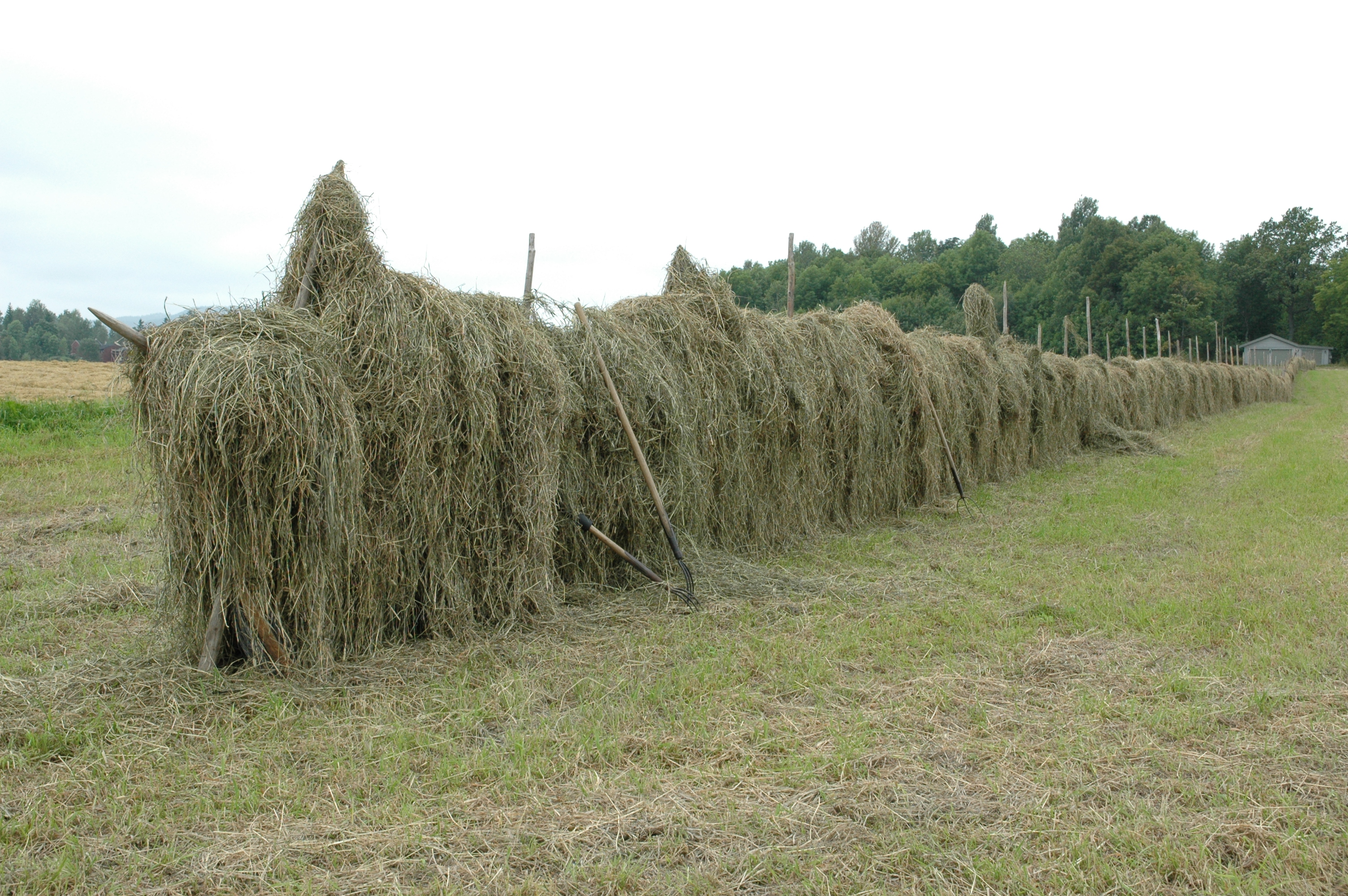 Traditional norwegian haystack. My own photography, Kjetil Lenes